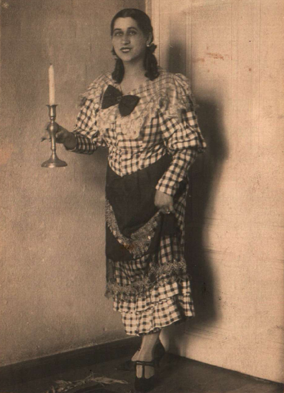 Maria Toromanova